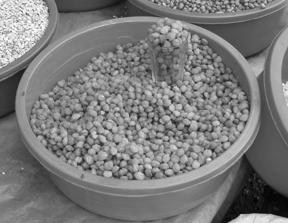 Njangsa/Njangsang for sale. Ricinodendron heudelotii